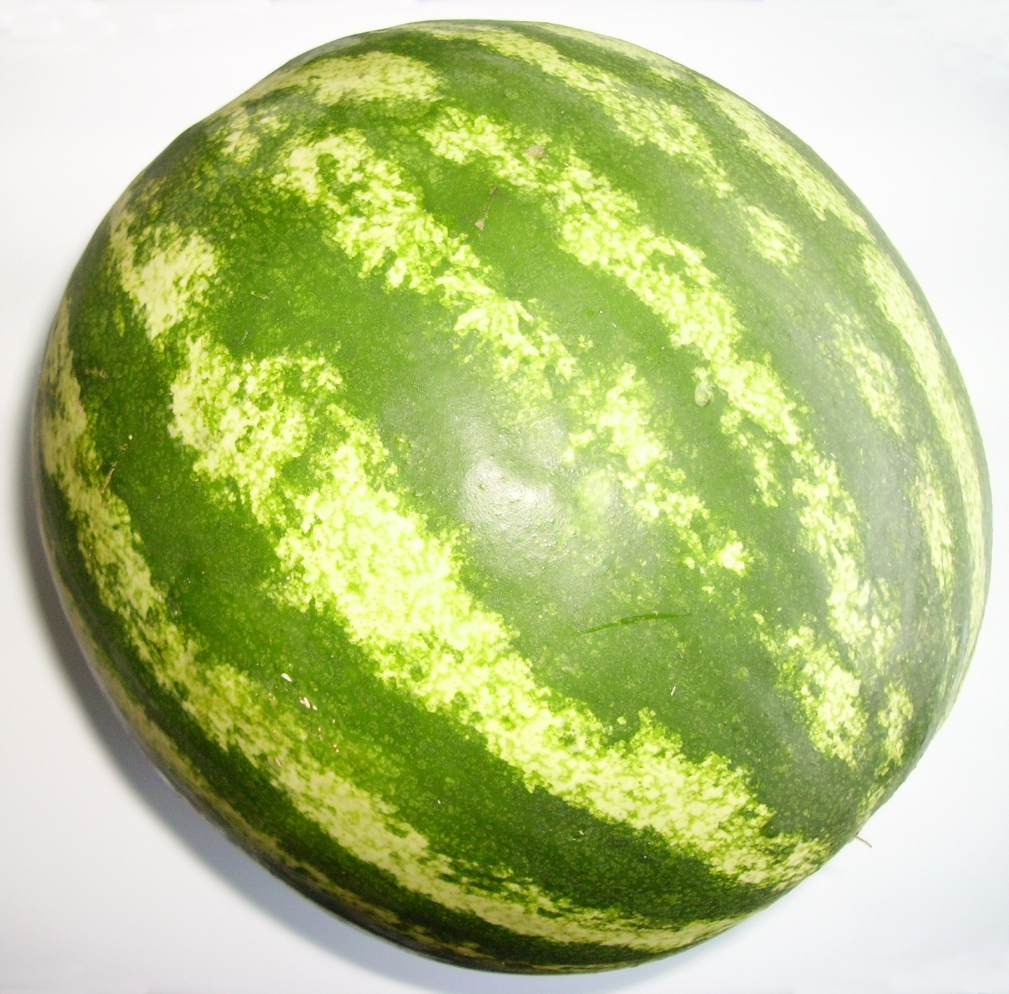 A watermelon